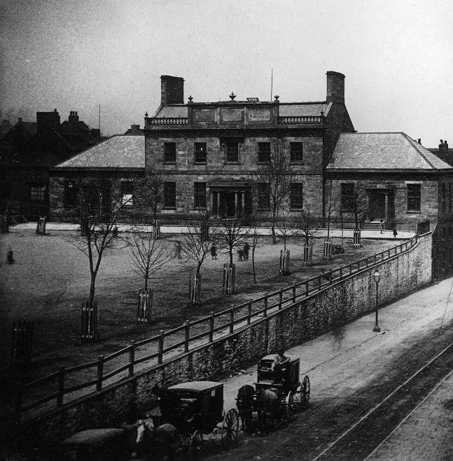 Dalhousie College, Halifax, Nova Scotia, Canada. This photograph shows the original Dalhousie College building that faced the Grand Parade in downtown Halifax. It moved to a site on South Common in 1886, now the Forrest Campus of Dalhousie University.